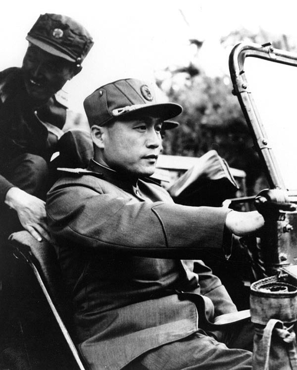 (Cropped slightly to remove the caption at the top of the photo). Lieutenant General Nam Il, North Korean Army. Sitting in a Russian-made jeep, waiting to depart from the Korean War Armistice Negotiations site at Kaesong, Korea. He was senior Communist delegate to the cease fire talks. Photo is dated 1 August 1951. U.S. Information Agency Photograph in the U.S. National Archives. Catalog #: 306-PSG-52-8917 Box 47